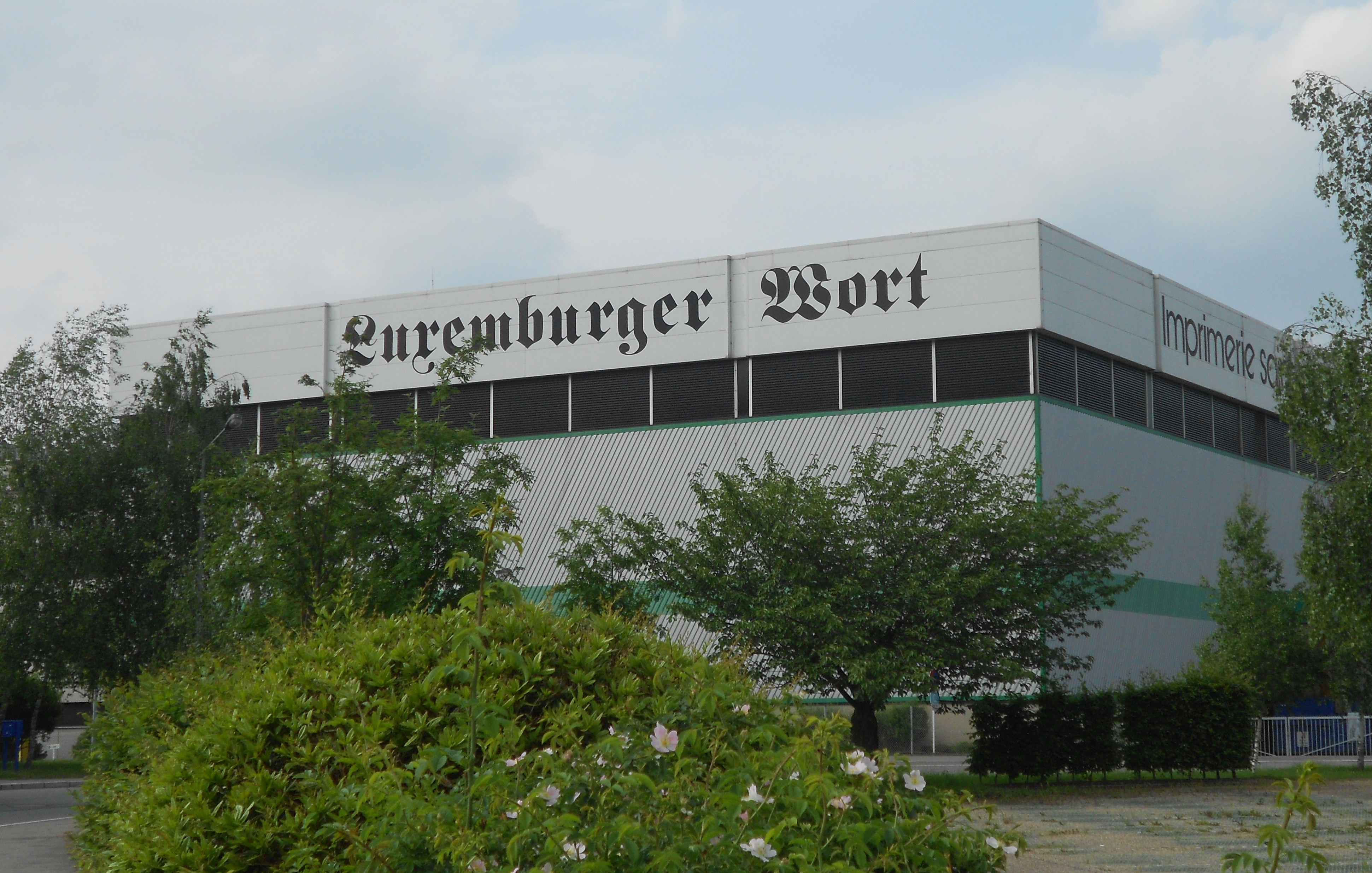 Building of the newspaper Luxemburger Wort and the Saint-Paul printing plant in Gasperich, in the city of Luxembourg.